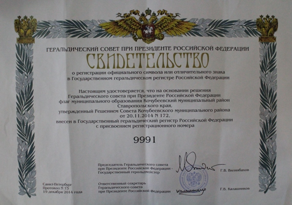 The certificate of registration of the flag of Kochubeyevsky District (Stavropol Region) in the State Heraldic Register of the Russian Federation